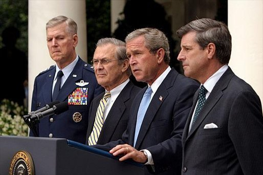 Listing recent achievements reached in Iraq, President George W. Bush holds a press conference in the Rose Garden, Wednesday, July 23, 2003. Standing with the President are Chairman of the Joint Chiefs of Staff General Richard Myers, Secretary of Defense Donald Rumsfeld and Presidential Envoy to Iraq Ambassador Paul Bremer. White House photo by Paul Morse.